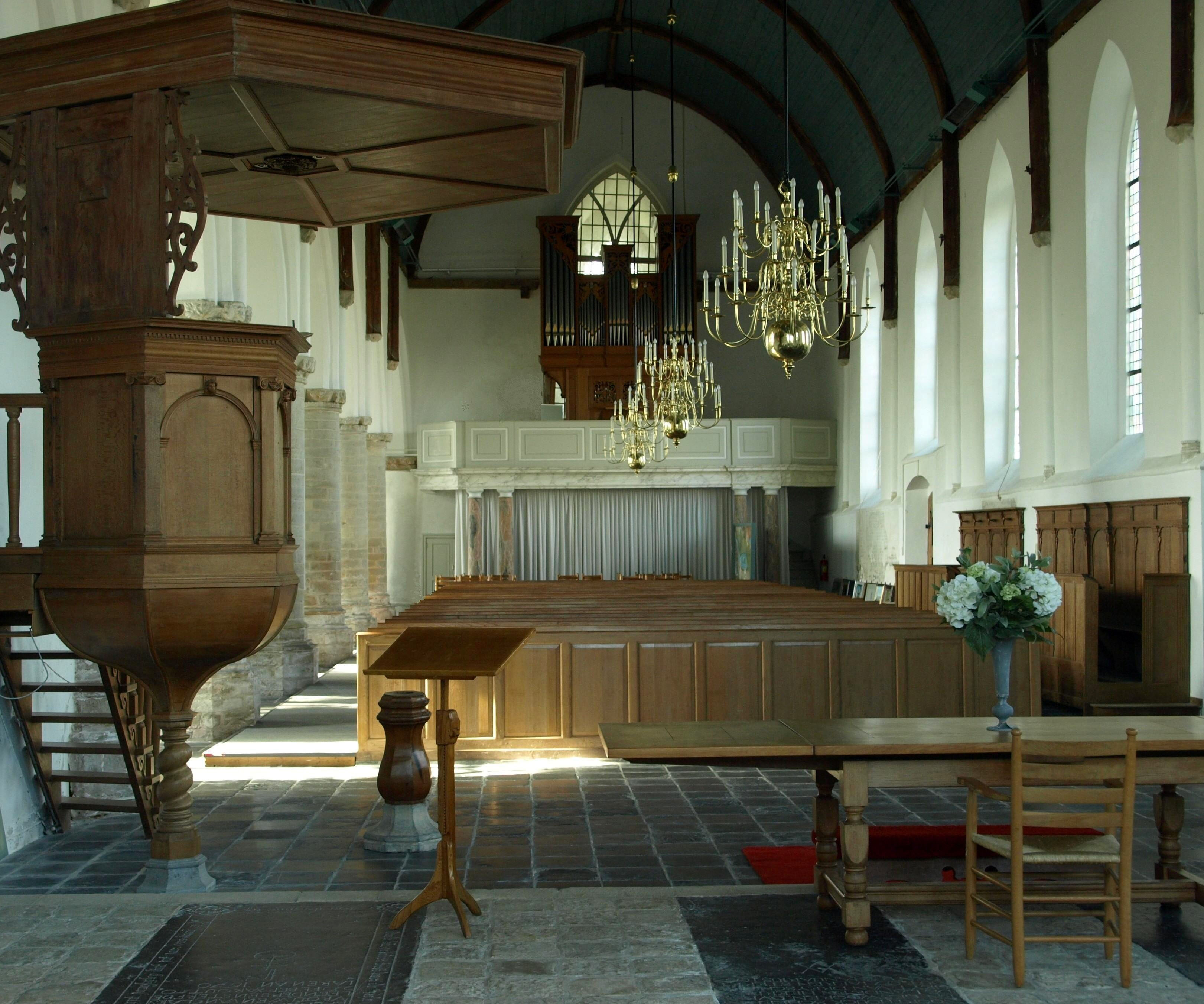 interor of the church in Dreischor